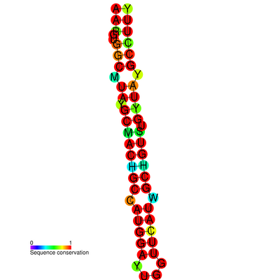 Conserved secondary structure of RNA hairpin in exon 9 of GABRA3.